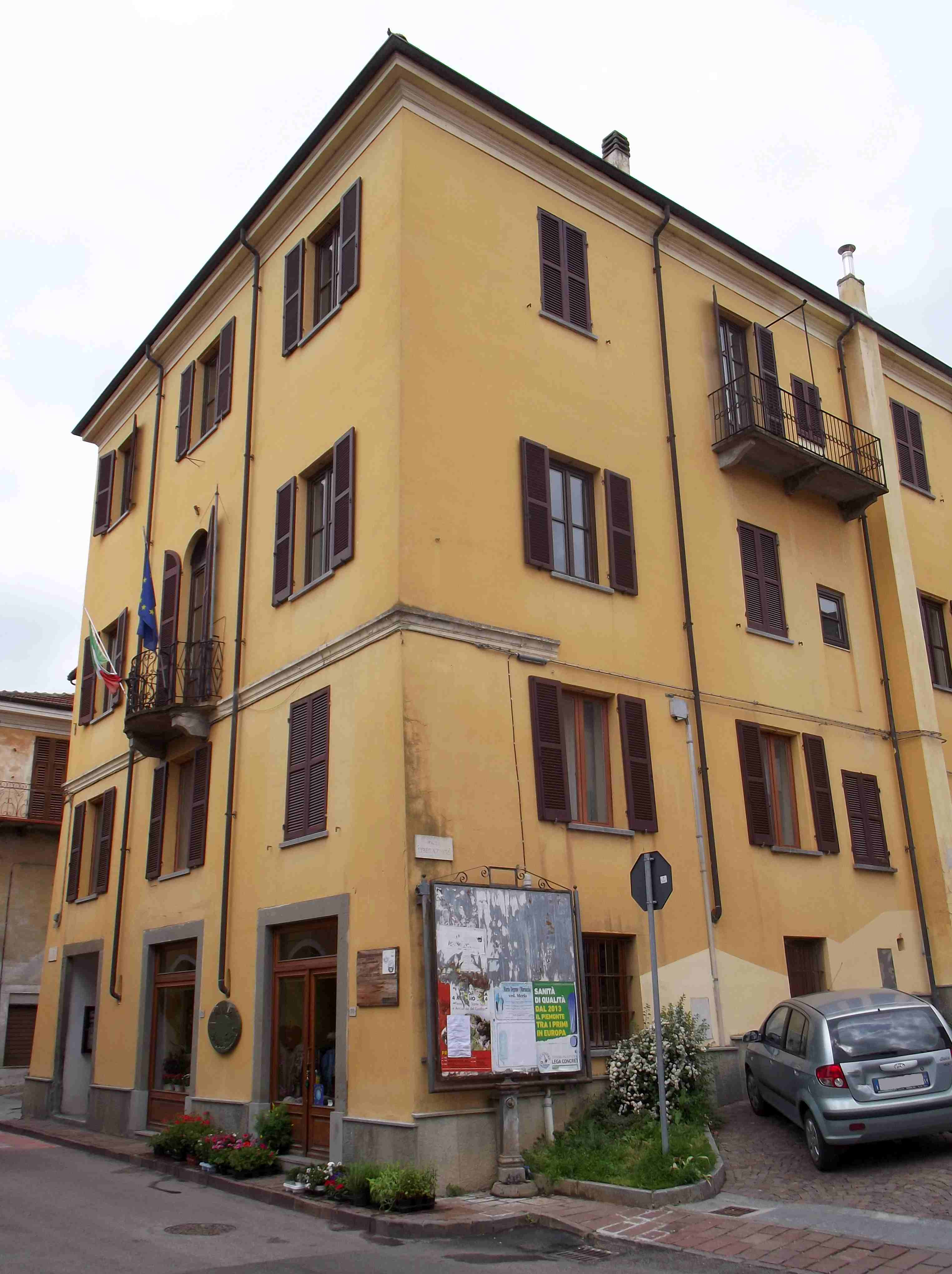 Spigno Monferrato (AL, Italy): town hall